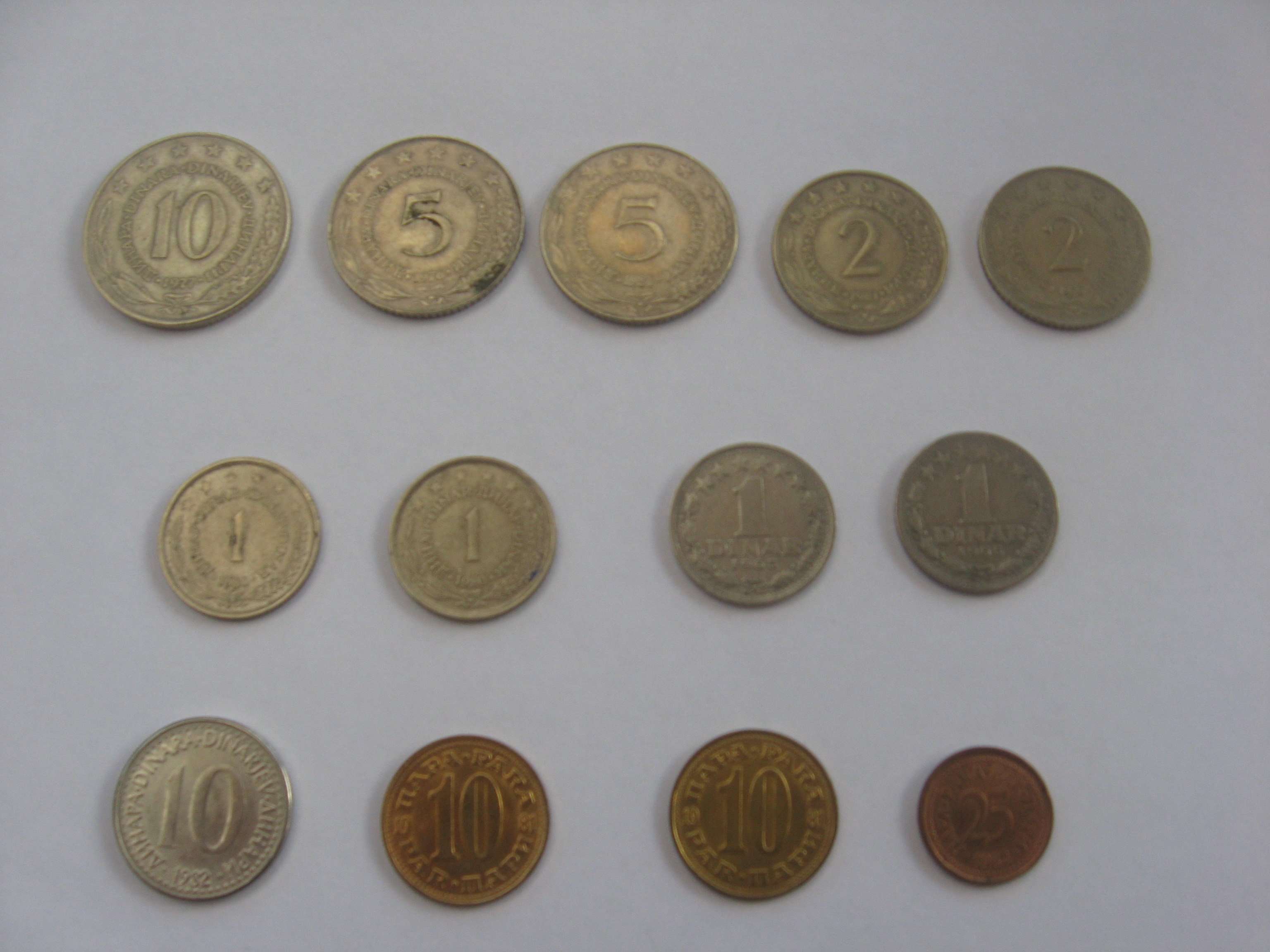 SFR Yugoslavia Dinar coins.